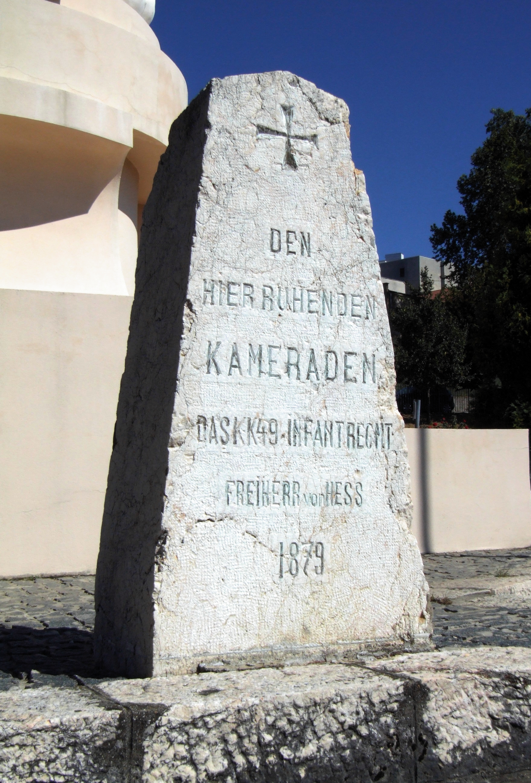 1878 War monument in Sarajevo, BiH